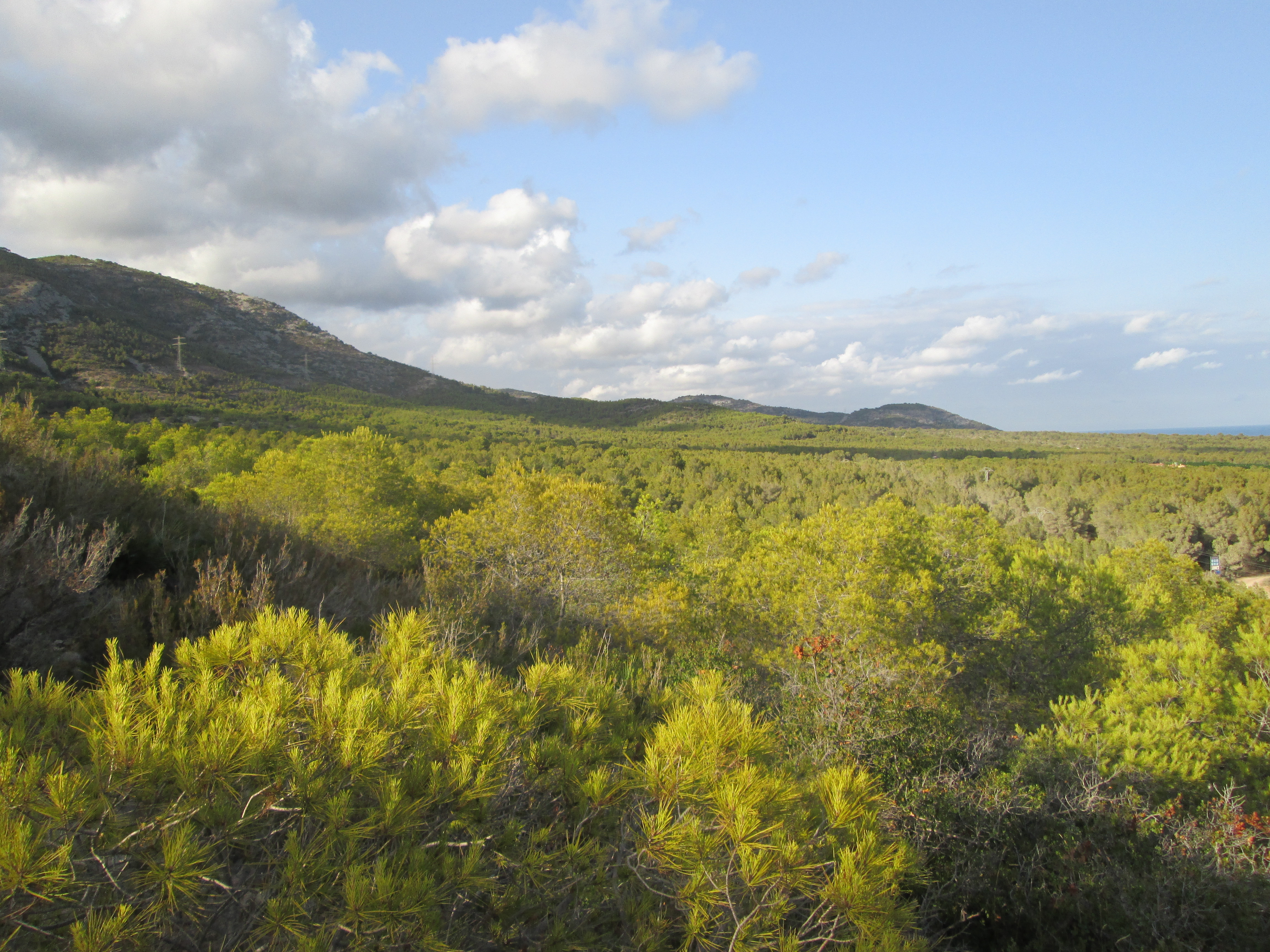 Sierra de Irta desde Las fuentes de Alcocebre